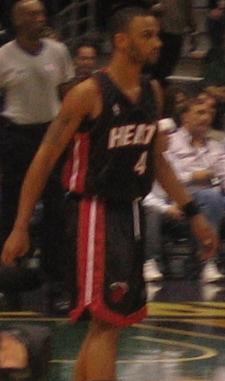 Gerald Fitch in a game against milwaukee bucks